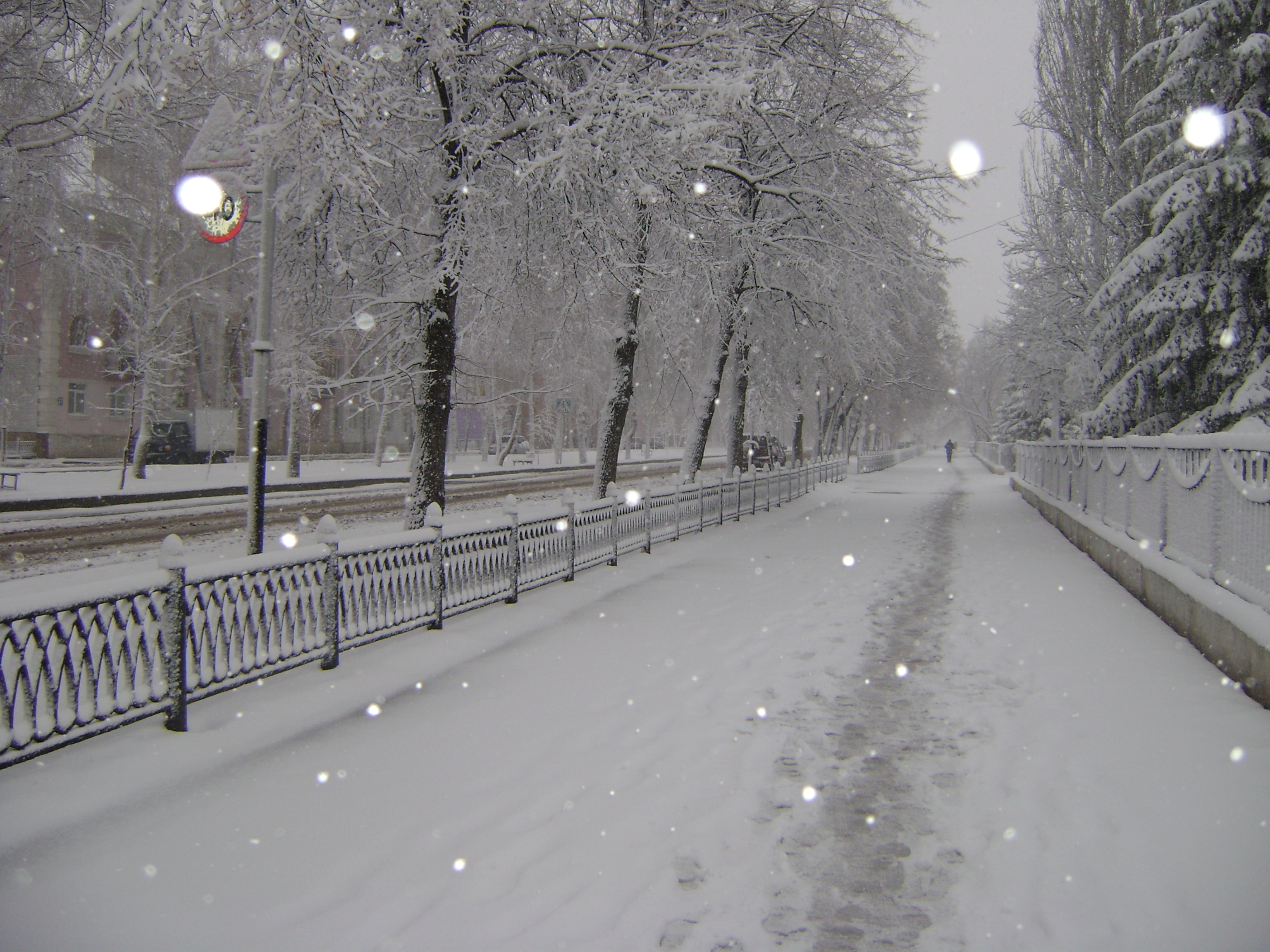 After snowfall on Lenina strit (sity Ishimbay, Russia)